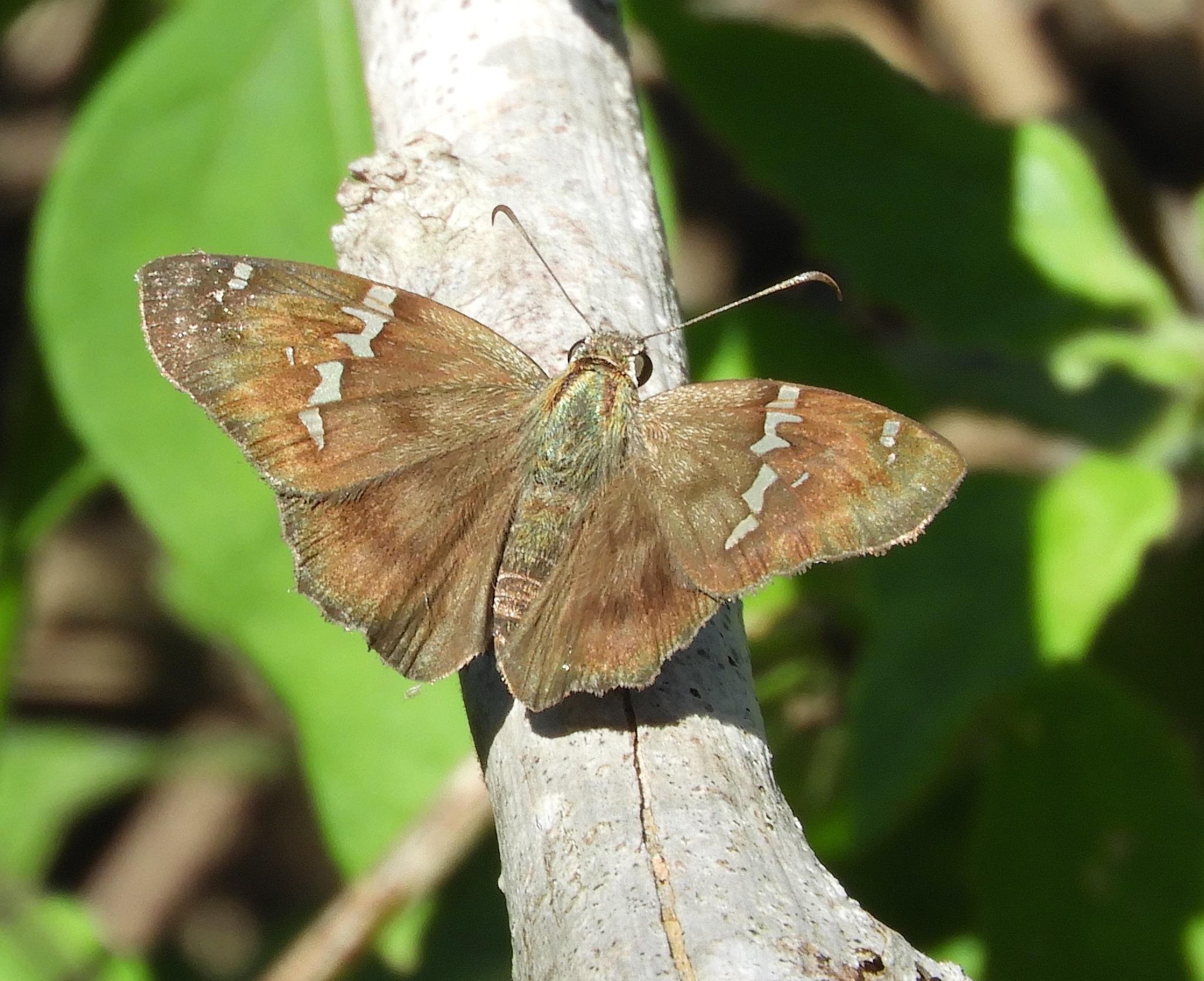 Potrillo Skipper (Cabares potrillo). Species of insect.